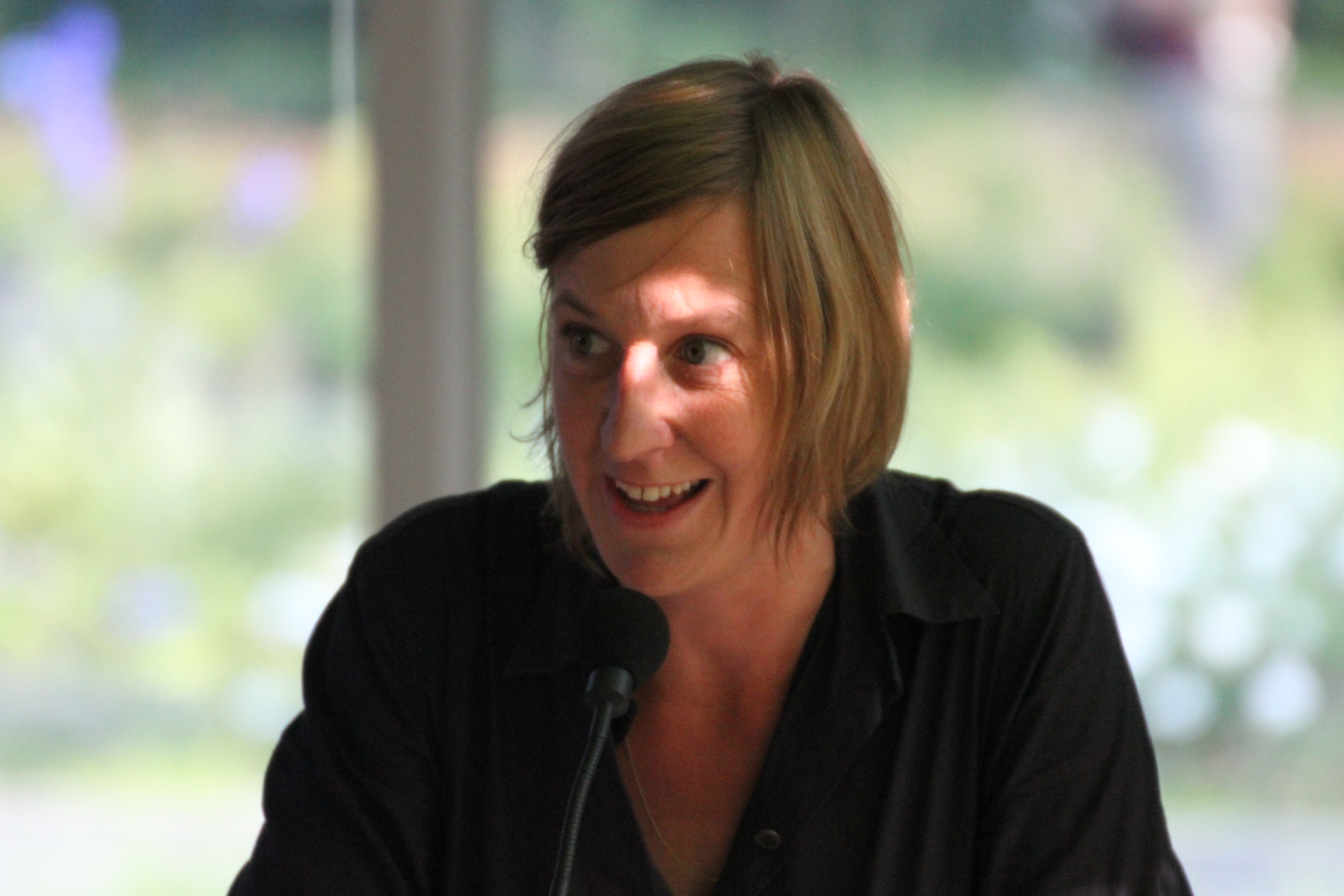 Els Moors at the Lyrikmarkt at the academy of the arts, Hanseatenweg 10, Berlin in 2016